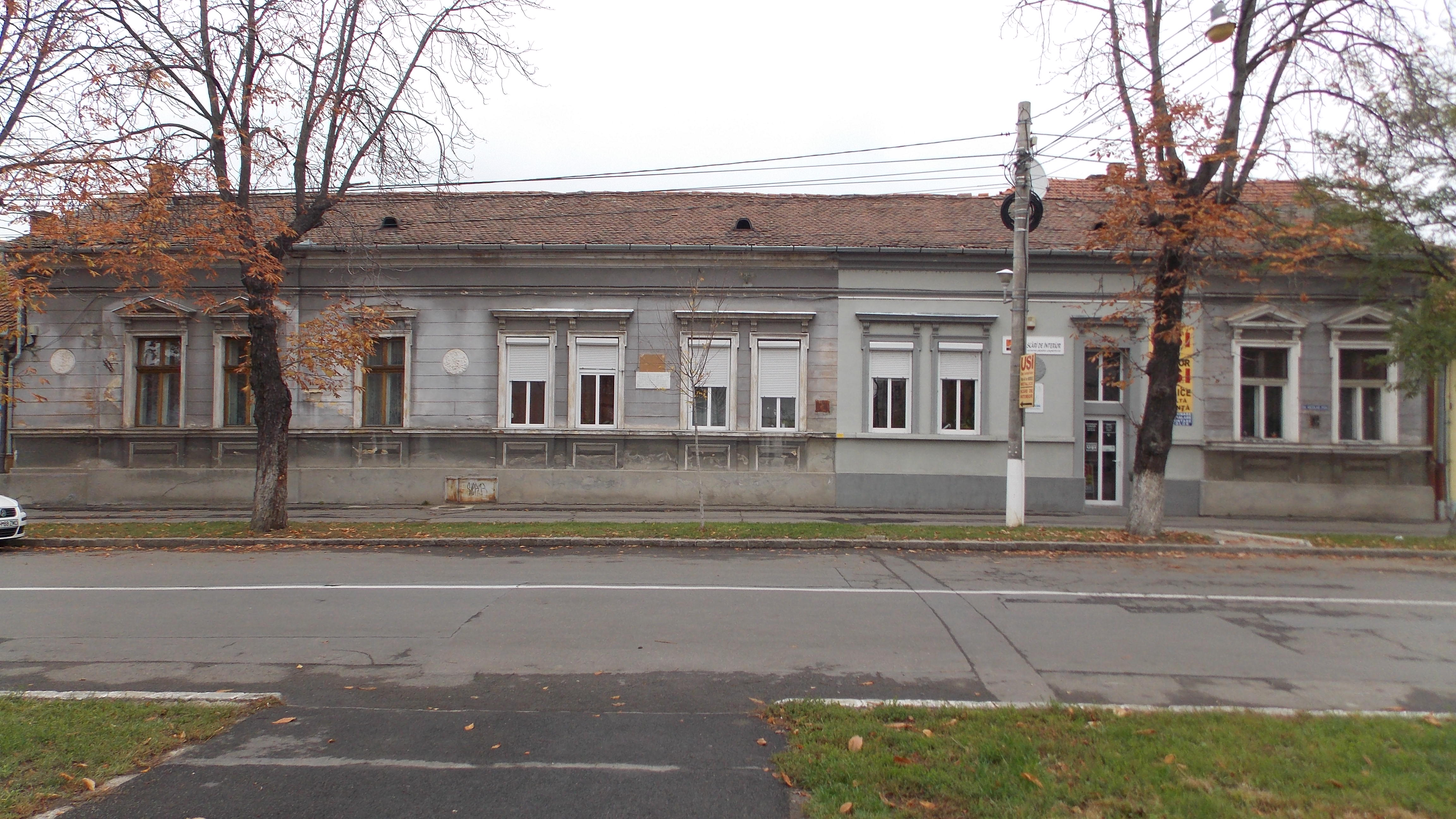 Nicolae Jiga Foundation building (1884)- Oradea, RomaniaRomână: Clădirea Fundației "Nicolae Jiga" - Str. Jiga Nicolae 31, Oradea